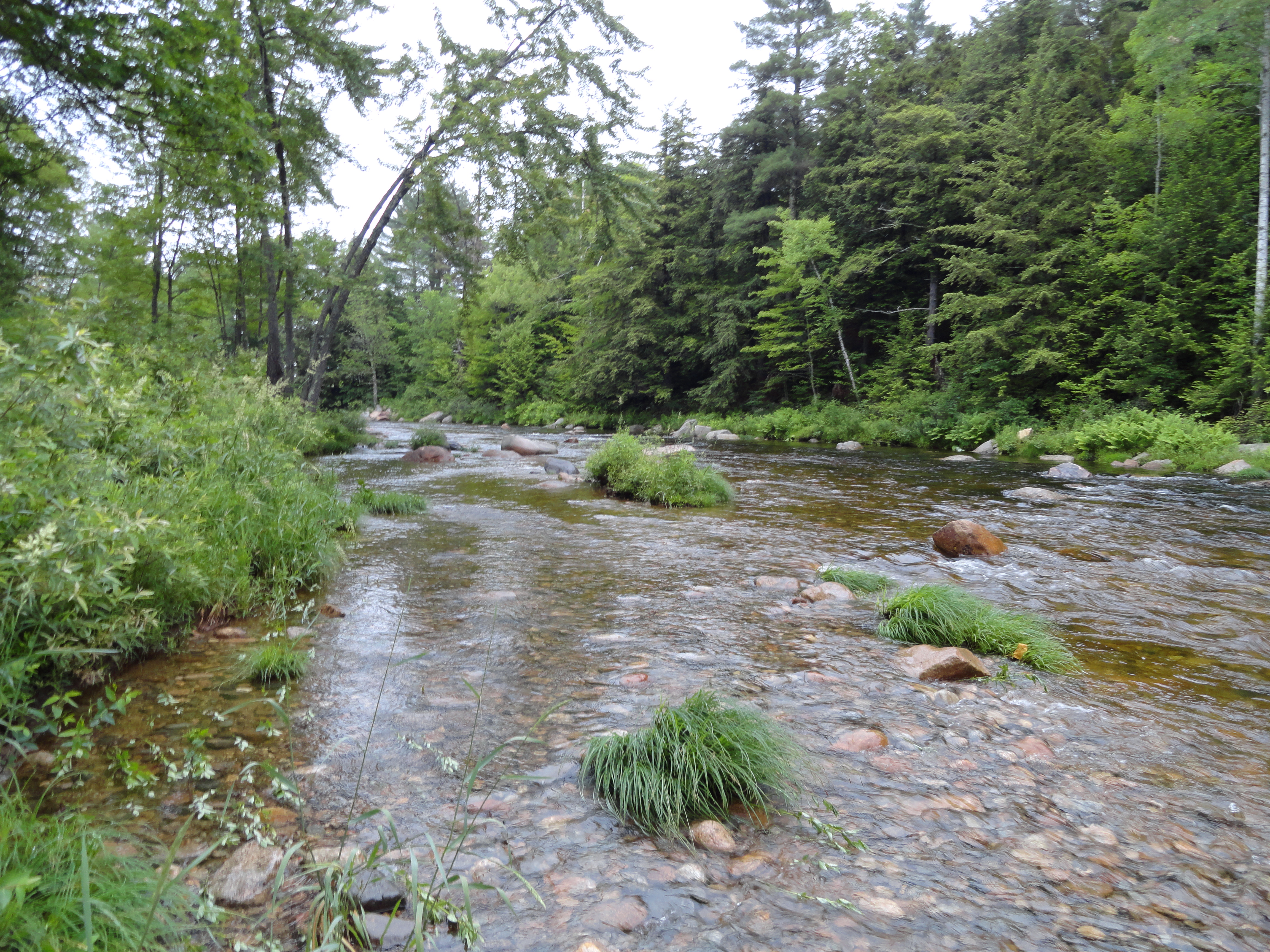 A view of the Ellis River, in Jackson, New Hampshire from behind the Covered Bridge River View Lodge.